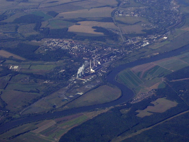 Power plant of Kashira